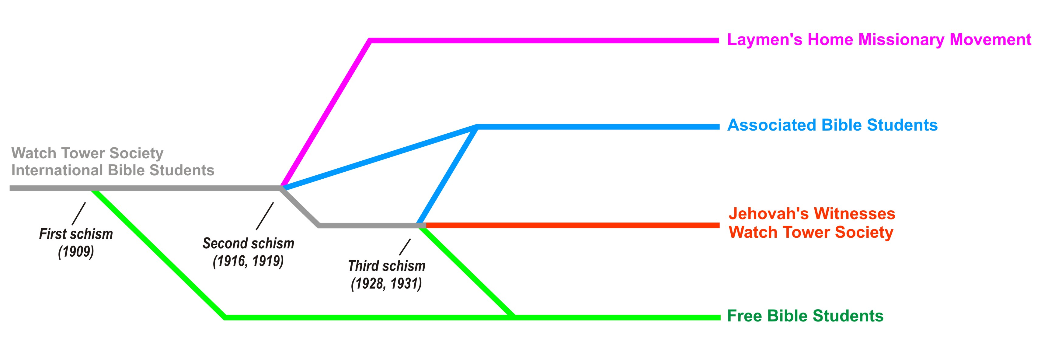 Chart of historical developments of major groups within Bible Students